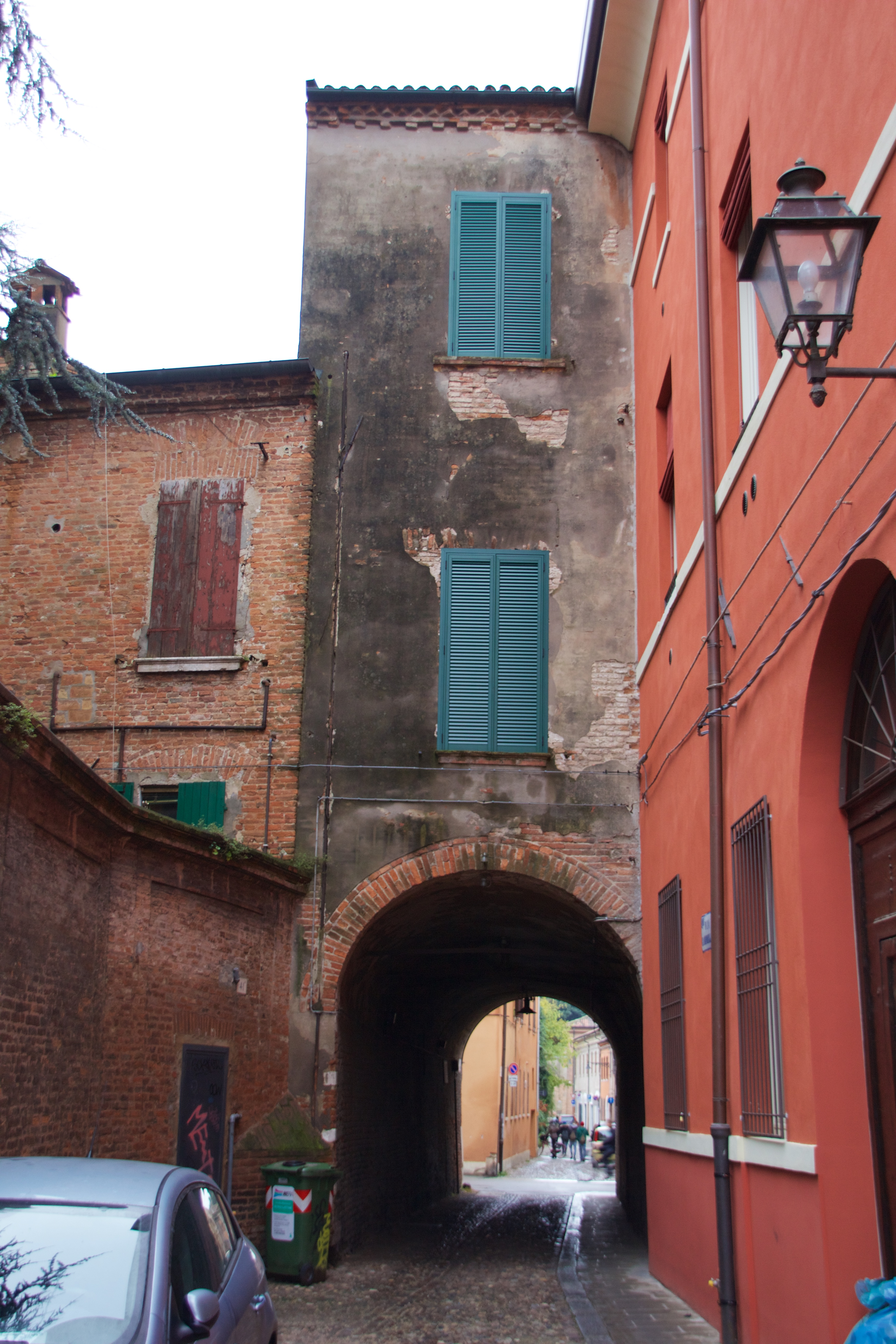 Ferrara, Italy